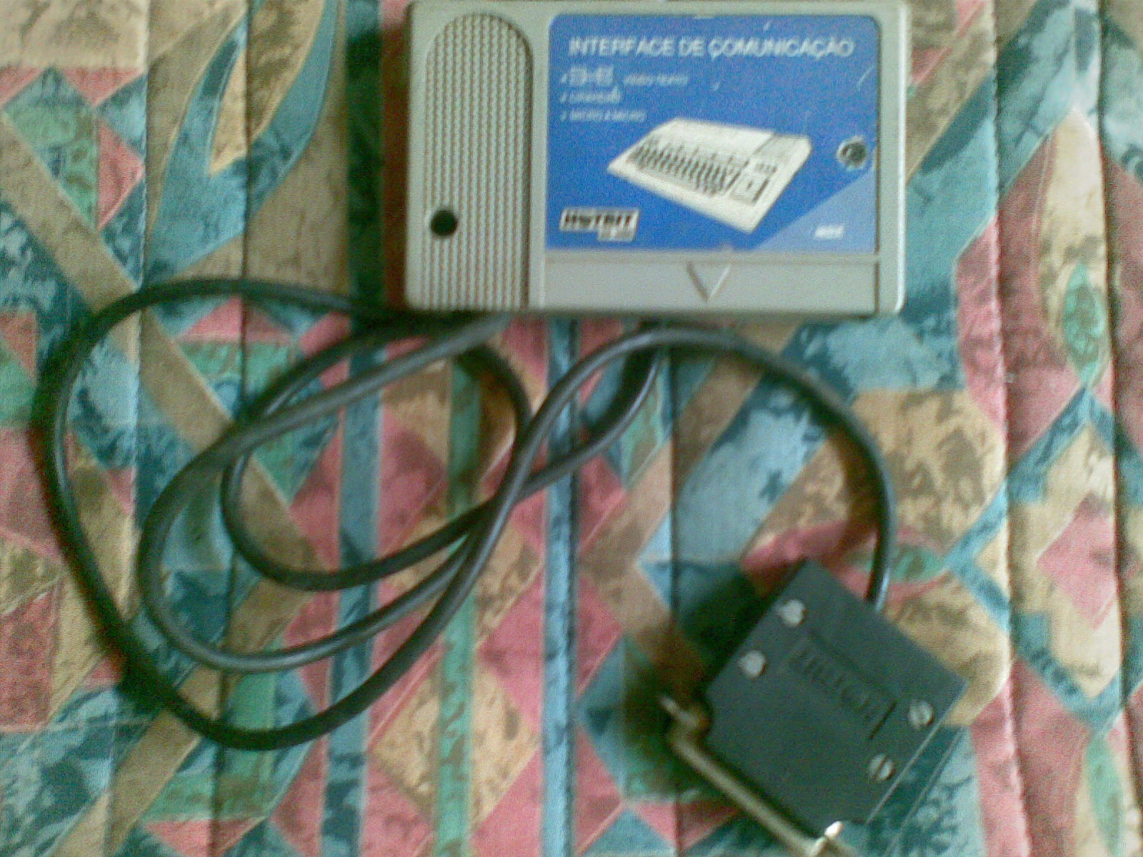 Communication cartridge (modem) Hotbit HB-3000